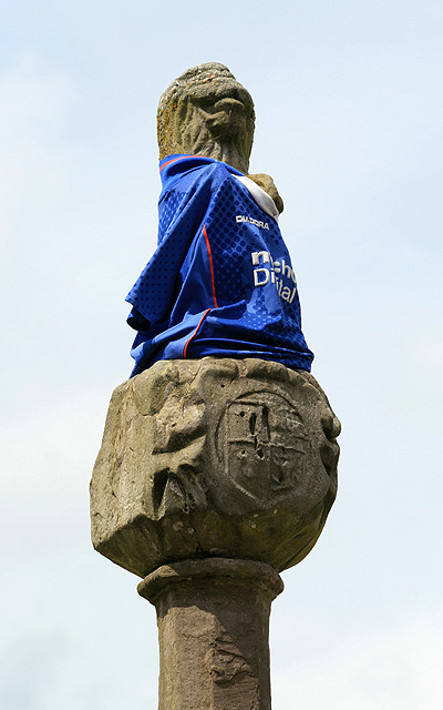 Rangers won the cup! The top of the Mercat Cross at Doune, has for now, been adorned with a junior size Glasgow Rangers FC shirt, in celebration no doubt, of the club defeating Falkirk FC to win the Scottish Cup on Saturday 30th May 2009.